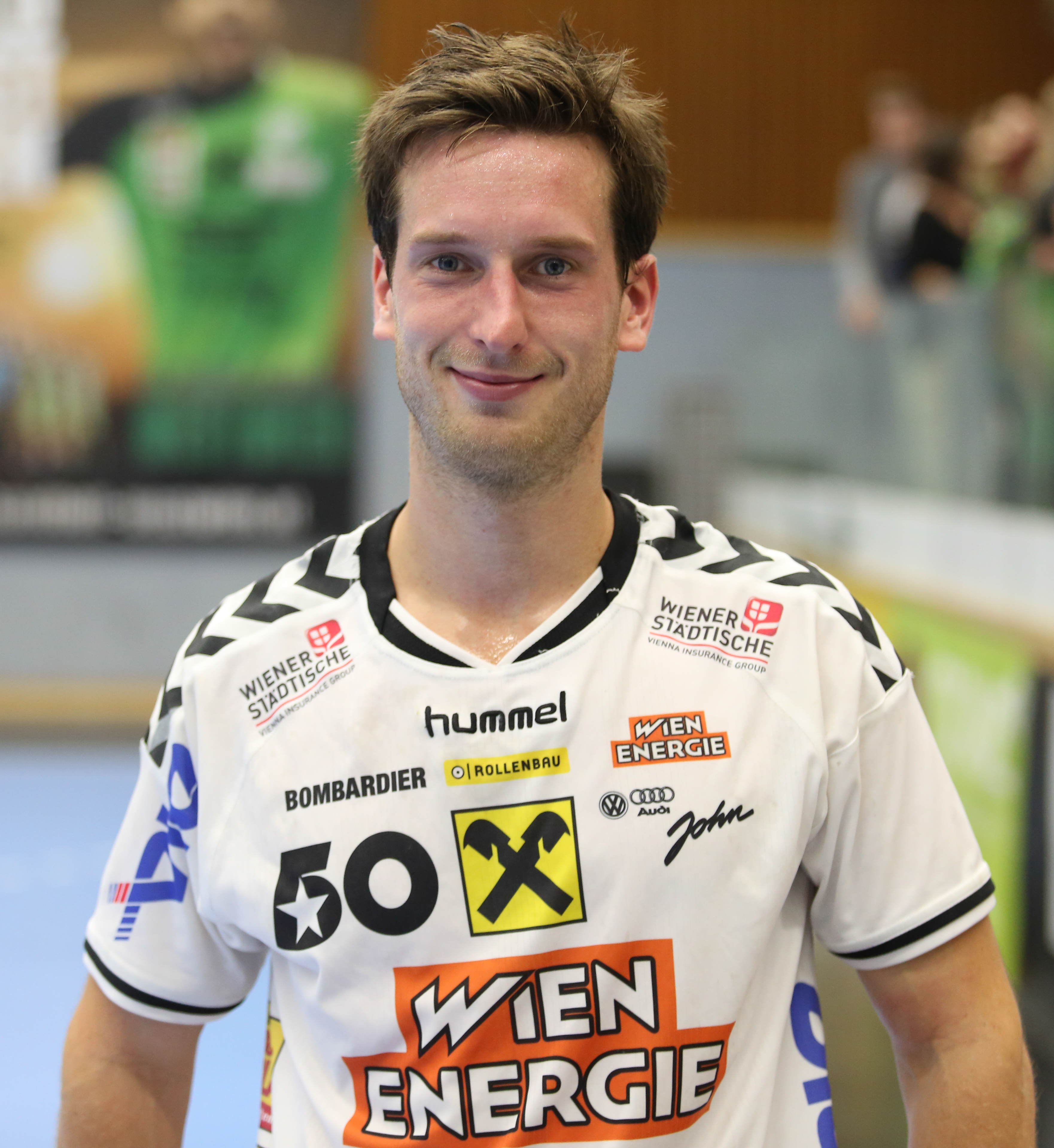 Richard Wöss after a game of the Handball Liga Austria.